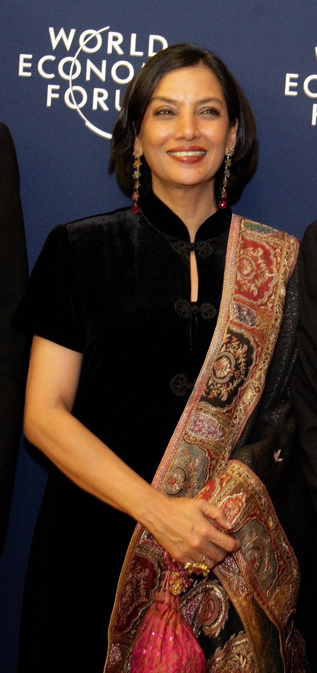 Shabana Azmi